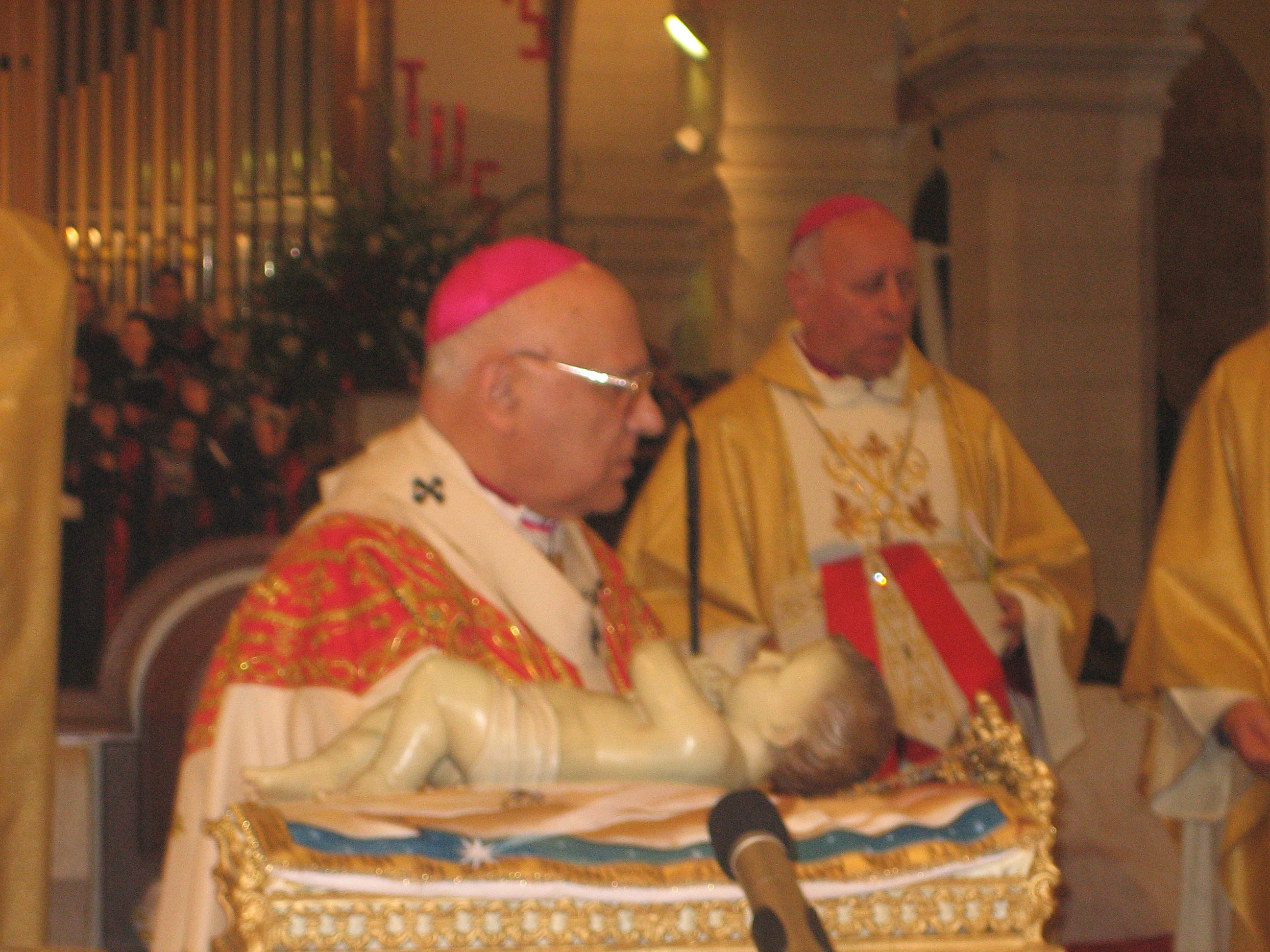 Midnight Mass on Christmas in Bethlehem: Roman Catholic patriarch Michaele Sabbah and the figure of Jesus / Polnoćka u Betlehemu: katolički patrijarh Michaele Sabbah i mali Isus.